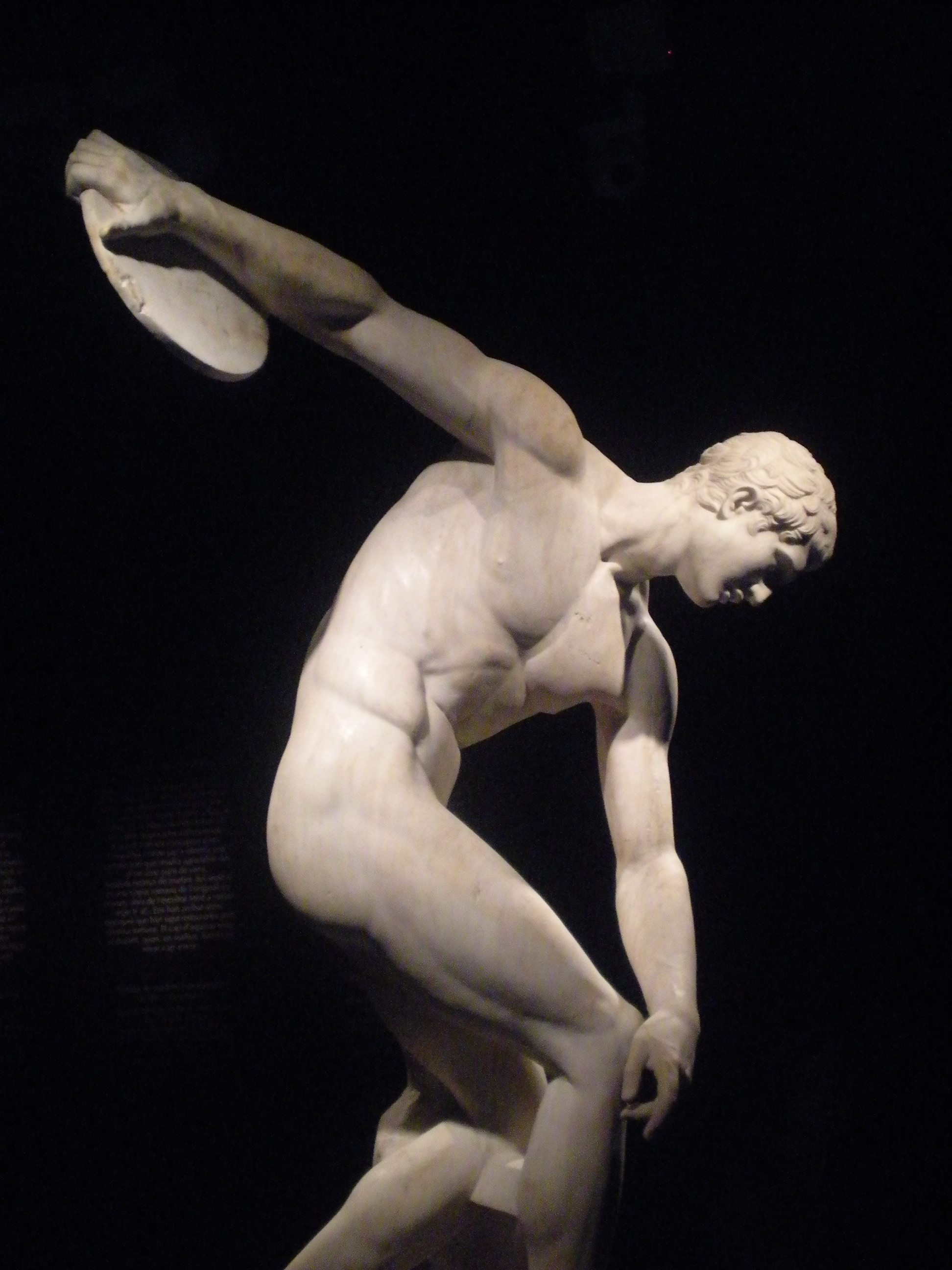 Discobolus. Marble, Roman copy after a bronze original of the 5th century BC. From the Villa Adriana near Tivoli, Italy.